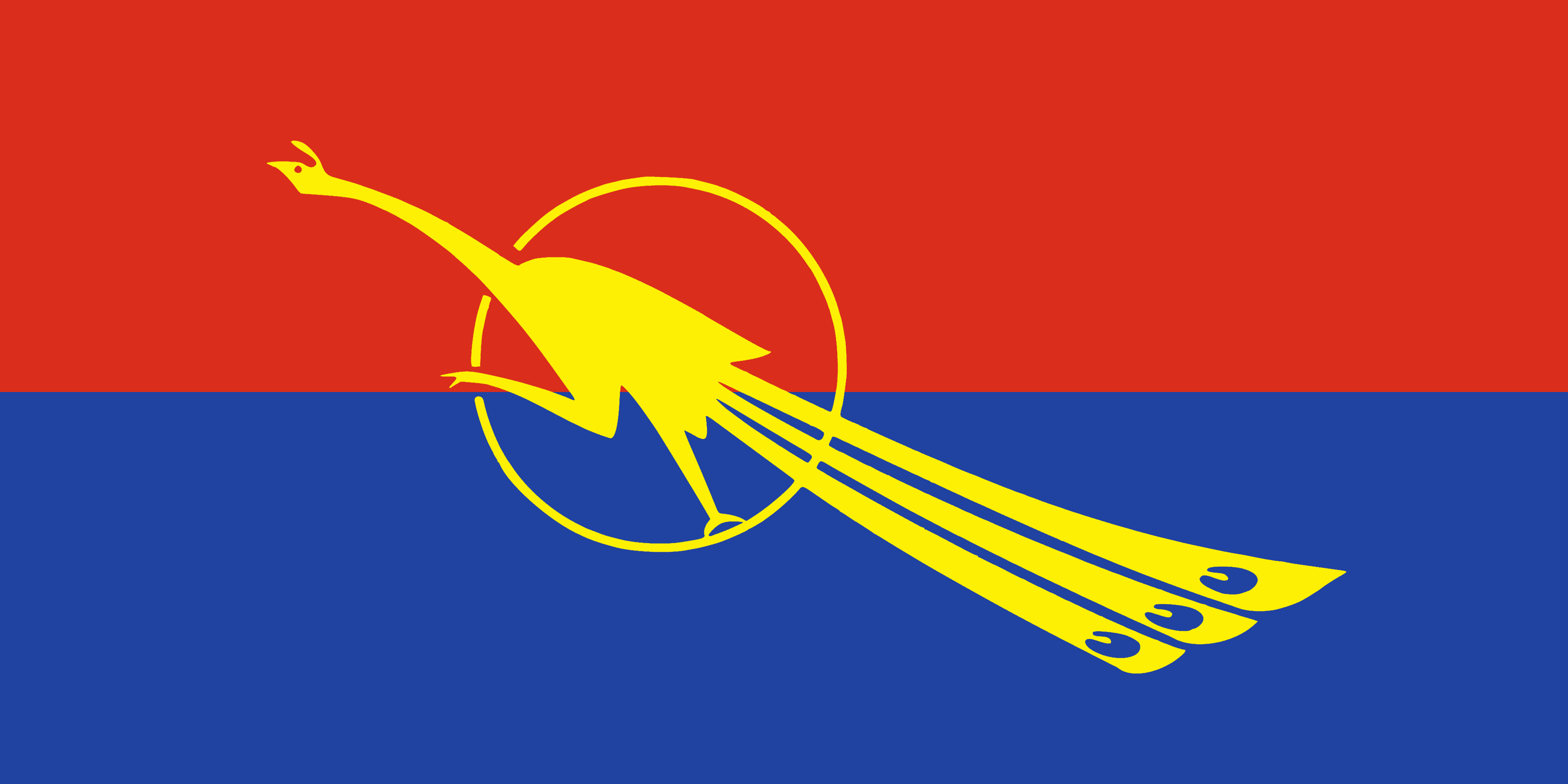 Flag of the Vigorous Burmese Student Warriors.